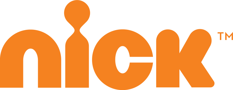 for nick channel bateer wiki